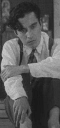 Tokihiko Okada (1903-1934) in a scene from Tokyo Chorus (1931).